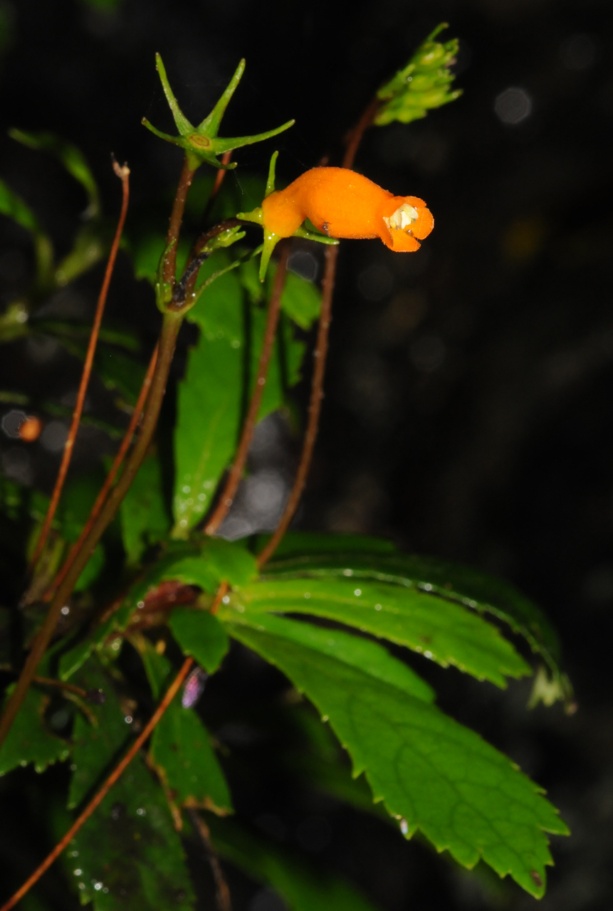 no common name Status: Threatened Listed March 7, 1995 Photo by Jan Paul Zegarra, USFWS Location, Puerto Rico More information